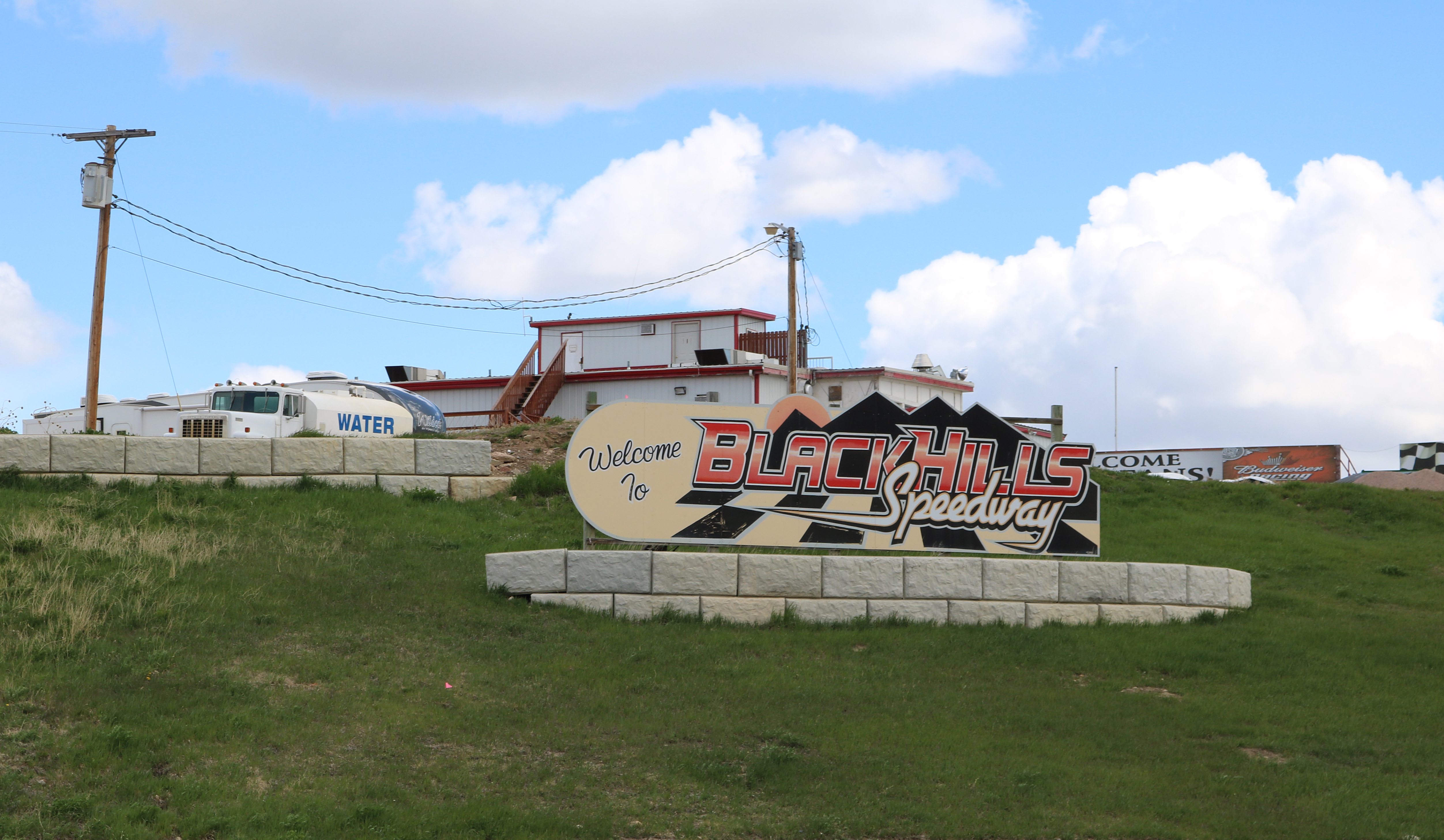 The Black Hills Speedway, located 2467 Jolly Lane in Rapid Valley, in Pennington County, South Dakota.